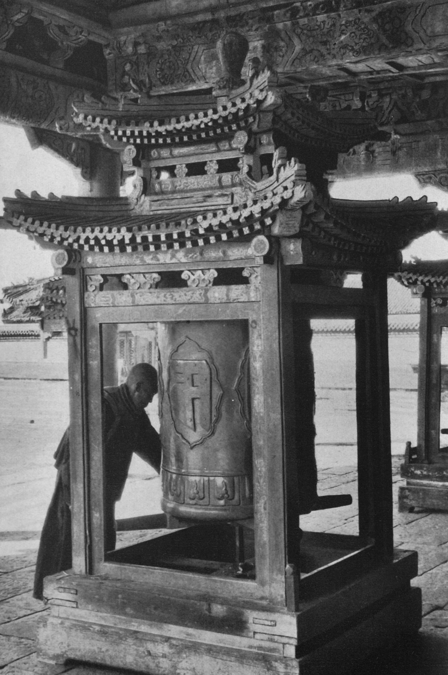 Prayer Wheel in the Bǎilíngmiào (百靈廟, W.-G.: Pai-ling-miao) of Inner Mongolia, inhabited by Lamas from the Gelugpa sect.